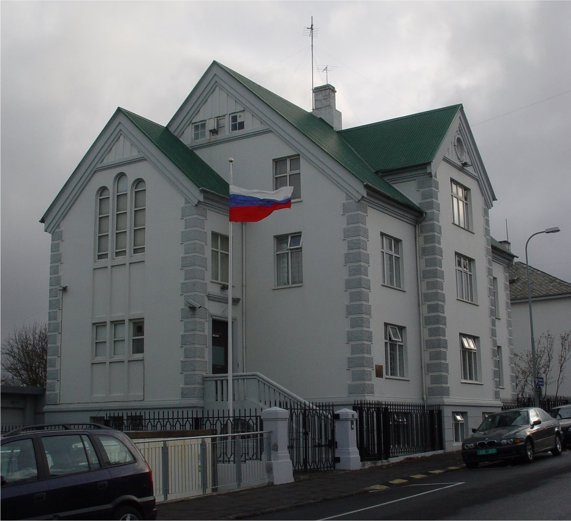 Embassy of Russia in Reykjavik